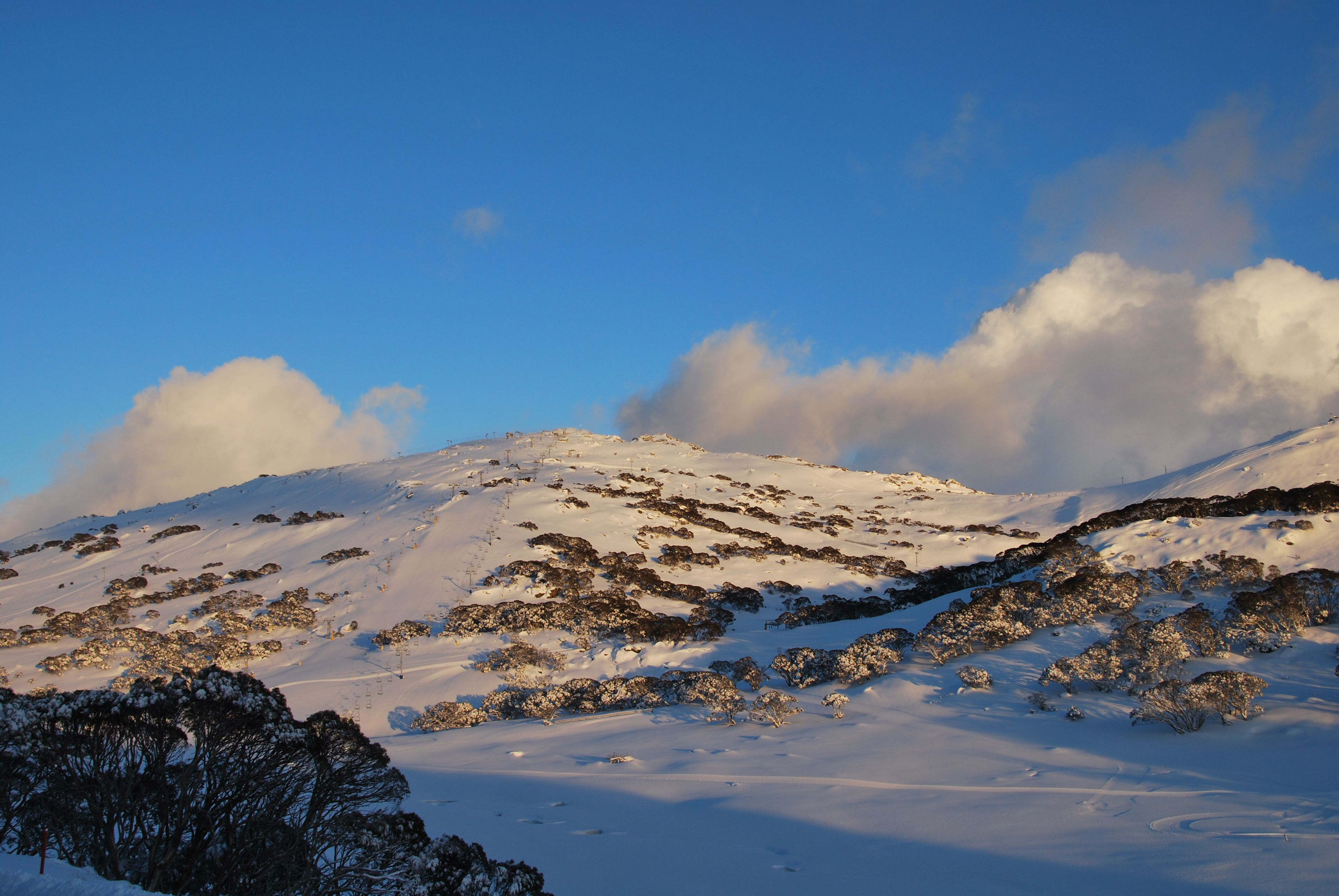 Mount Perisher standing tall at 2054m looking awesome